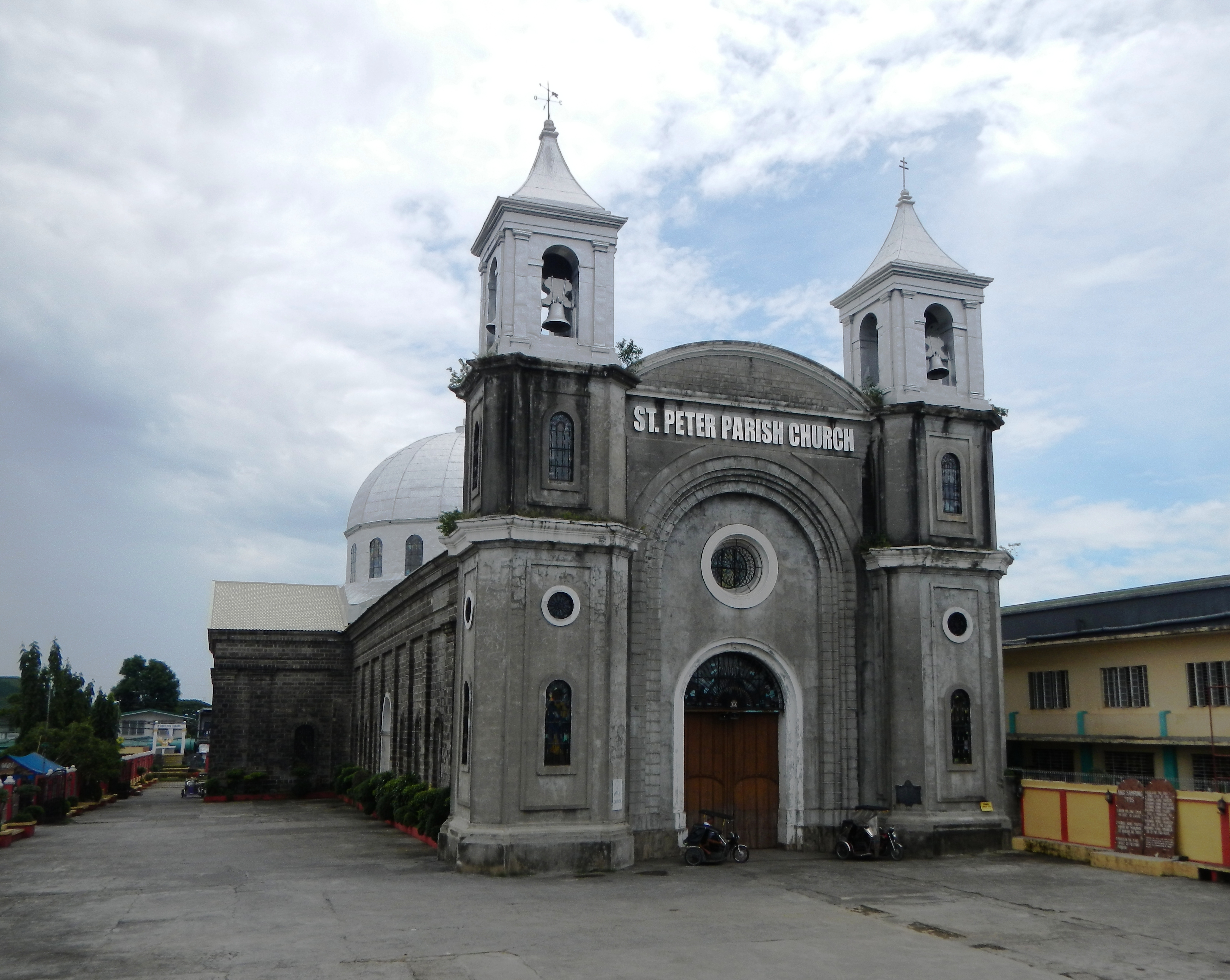 Barangay San Juan, Apalit, Pampanga (landmarks are the San Pedro Apostol Church, beside is the Mater Boni Consilii Seminary, Dominican School of Apalit, Rizal statue, St. Peter Statue, Chuech Patio, statue of the unborn, all in Centro, Proper of this Barangay, along the inner San Juan-Sucad Barangay Road surrounded by the Pampanga River).